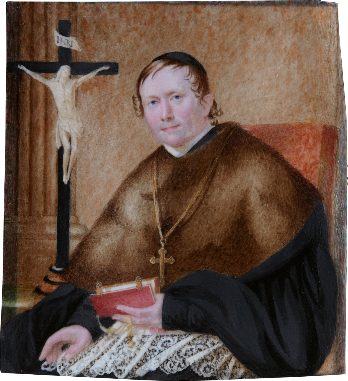 Trail, Agnes Xavier; Mrs Hutchison; Scottish Catholic Archives; by Agnes Xavier Trail an Edinburgh nun